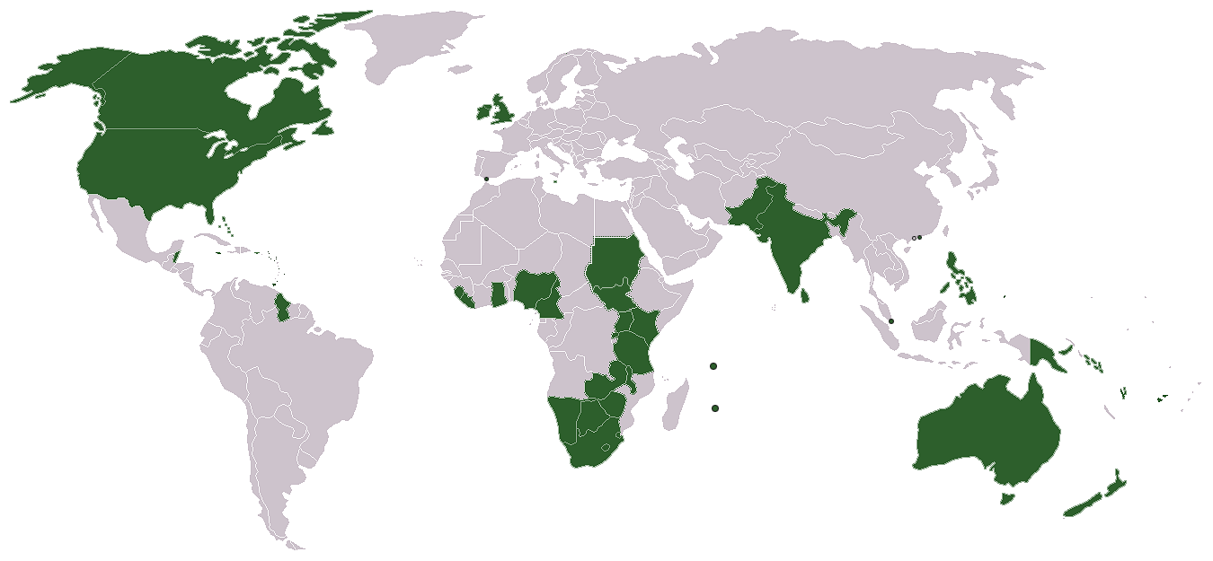 A map of the world. It shows English-speaking countries (primary and predominant) in dark green. Organizations are not included. Other countries are shown in grey.